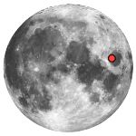 Description: Location of the Picard crater on the Moon. The marker also shows the proximity of the Yerkes, Curtis, Peirce, Swift, Eckert, and Crile craters. Source: This is a modified version of a photo obtained from the NASA Planetary Photojournal. It was modified by RJHall. Width: 150 pixels Height: 150 pixels